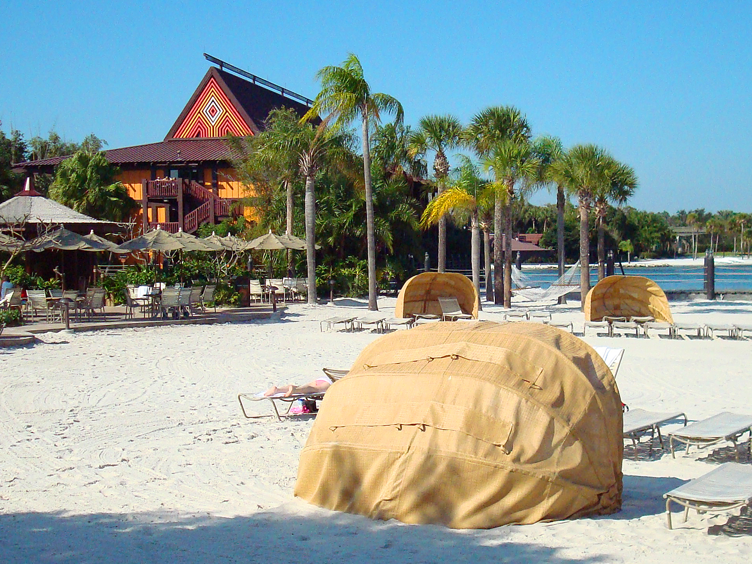 Polynesian Resort, looking towards the Tuvalu Longhouse with the beach in the foreground.